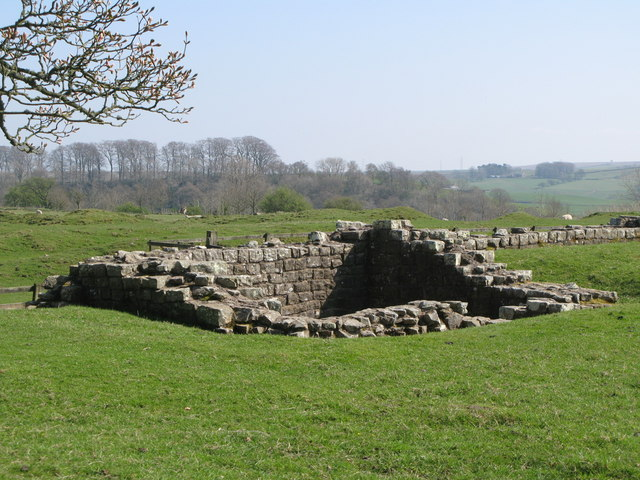 Birdoswald (Banna) - part of the main east gate